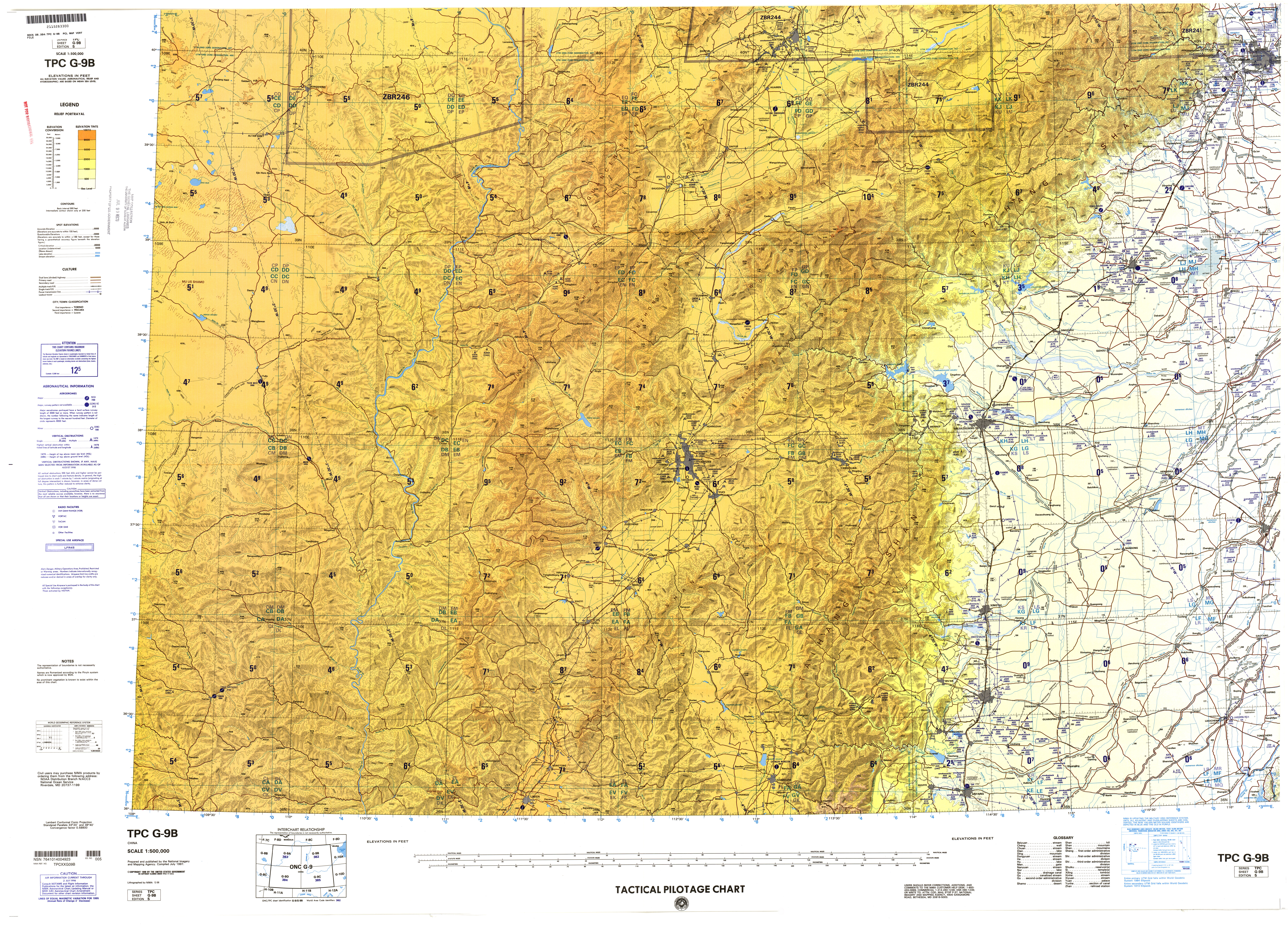 Tactical Pilotage Chart Series - World 1:500,000 Scale